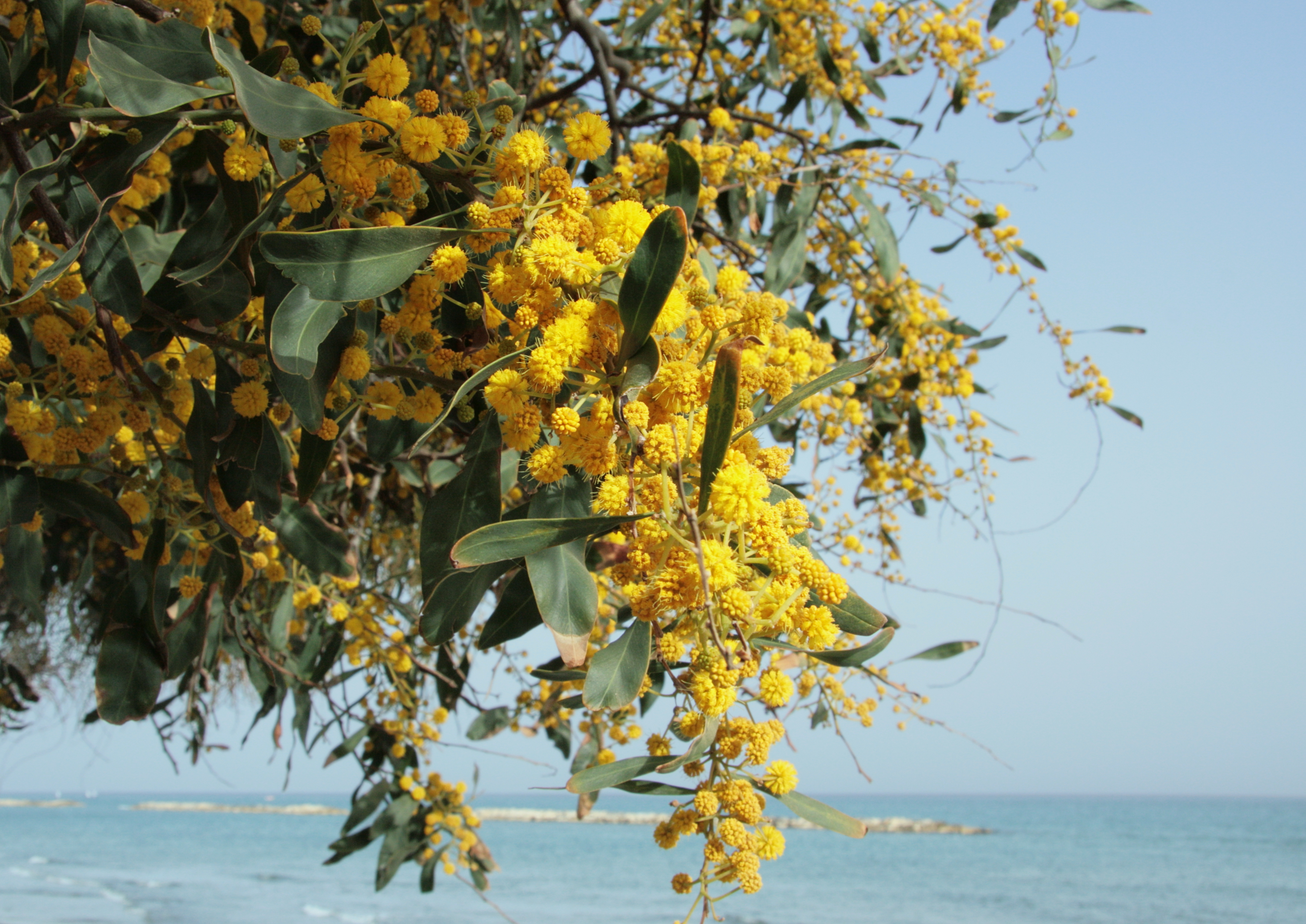 Acacia saligna Cyprus, Limassol beach